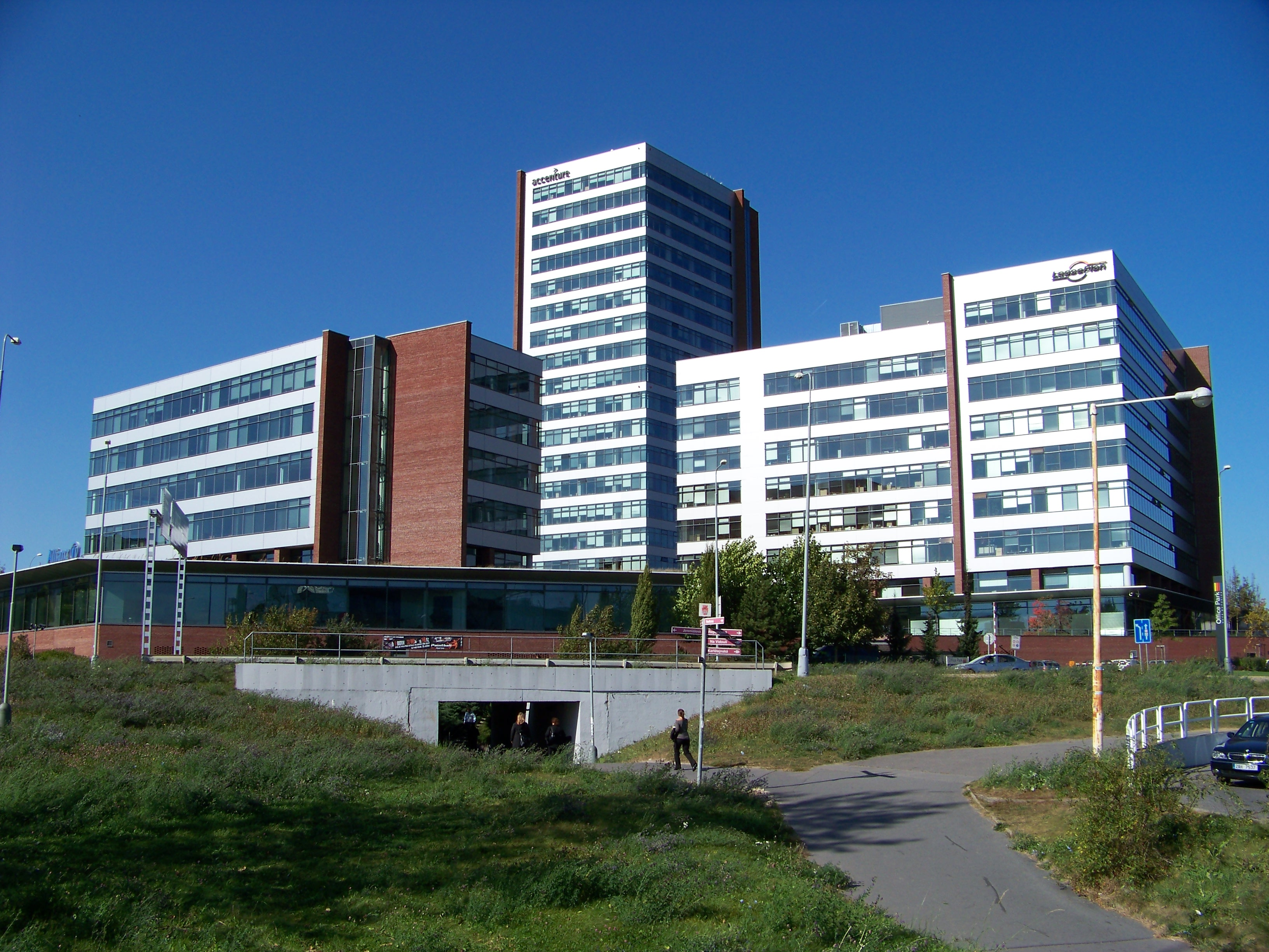 Prague-Stodůlky, the Czech Republic. Office Park Nové Butovice, A, D and B buildings, seen from Radlická street. - OpenStreetMap(Info)